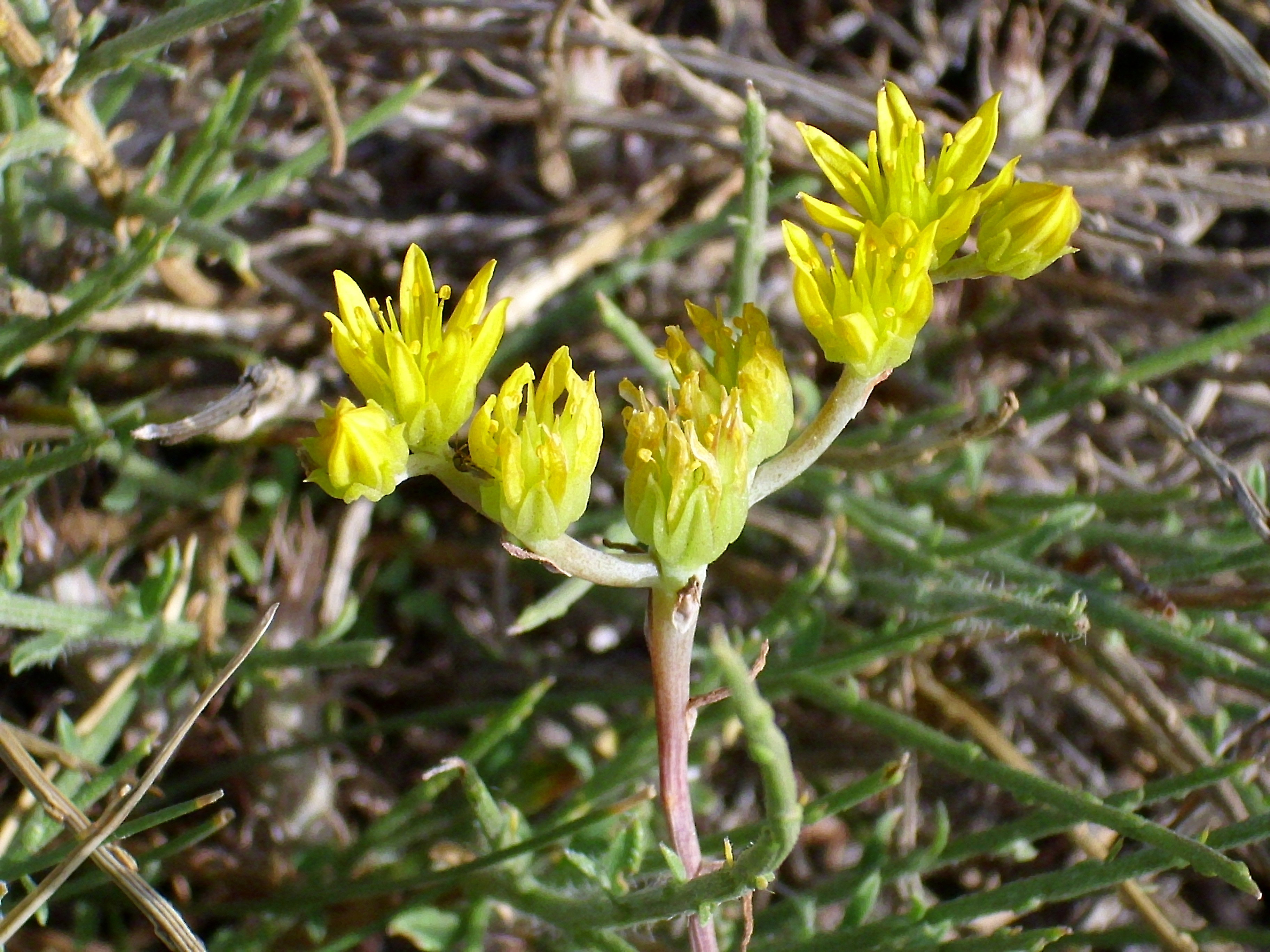 Sedum amplexicaule flowers close up, Sierra Nevada, Spain